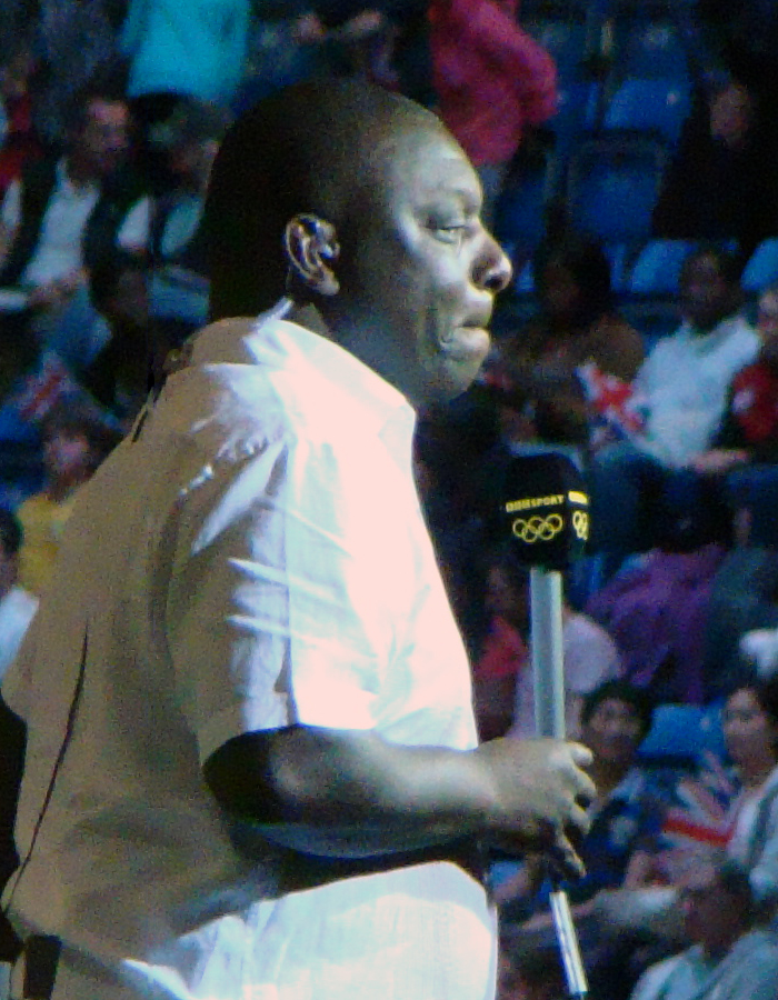 Garth Crooks. 04/08/12 Great Britain v South Korea, Olympic Football, Millennium Stadium, Cardiff, Wales